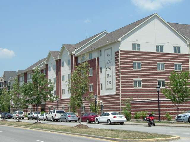 UL dorms